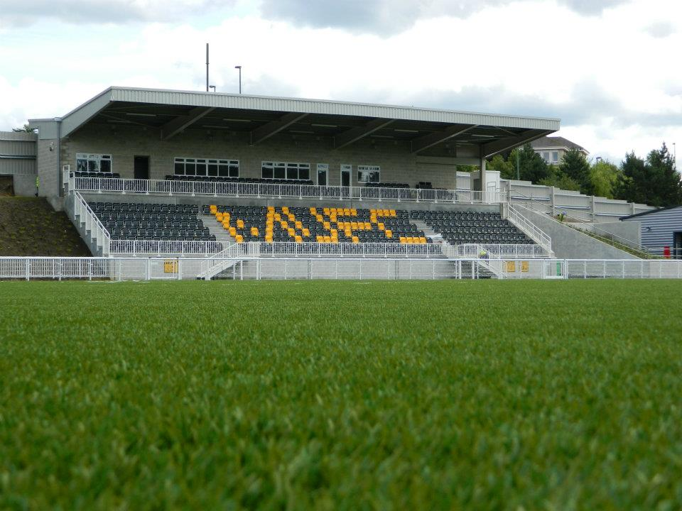 Photo of the main stand at the Gallagher Stadium.